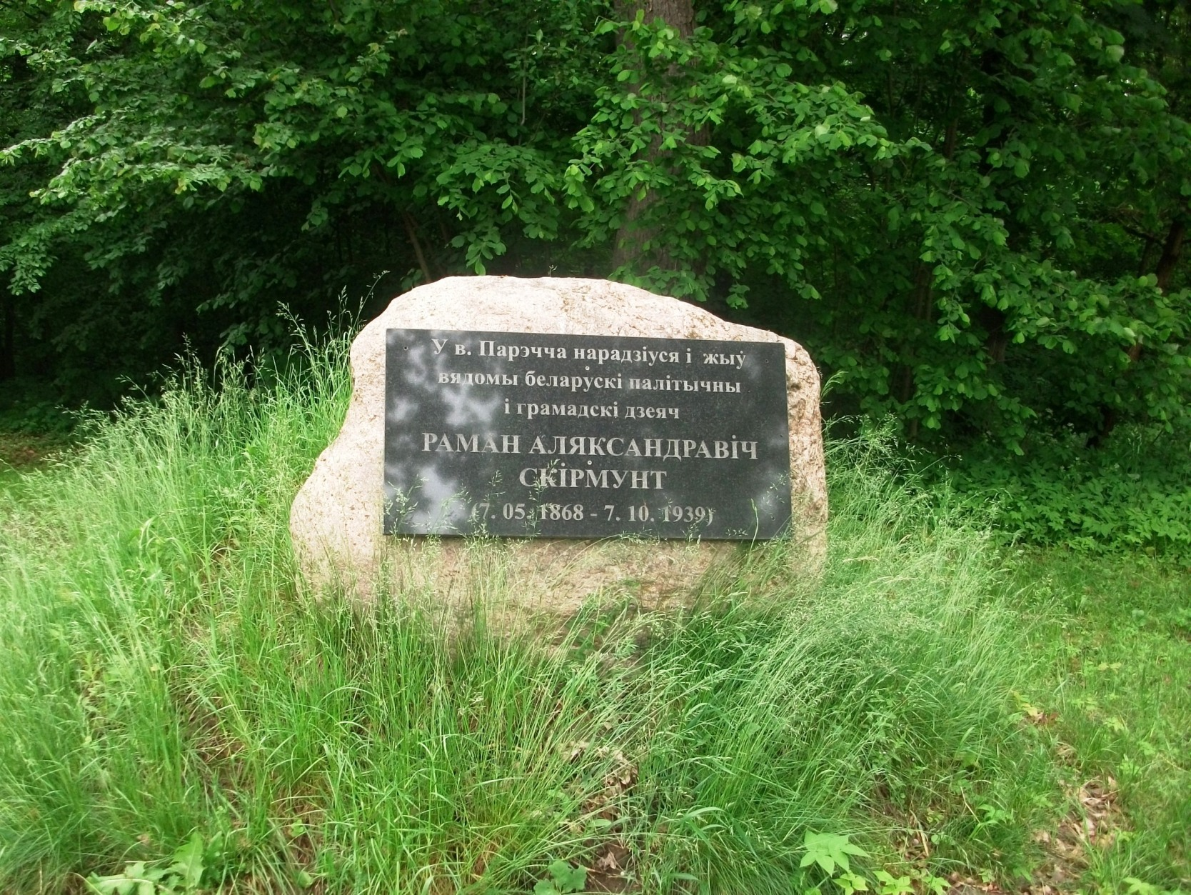 Memorial shield to Raman Skirmunt